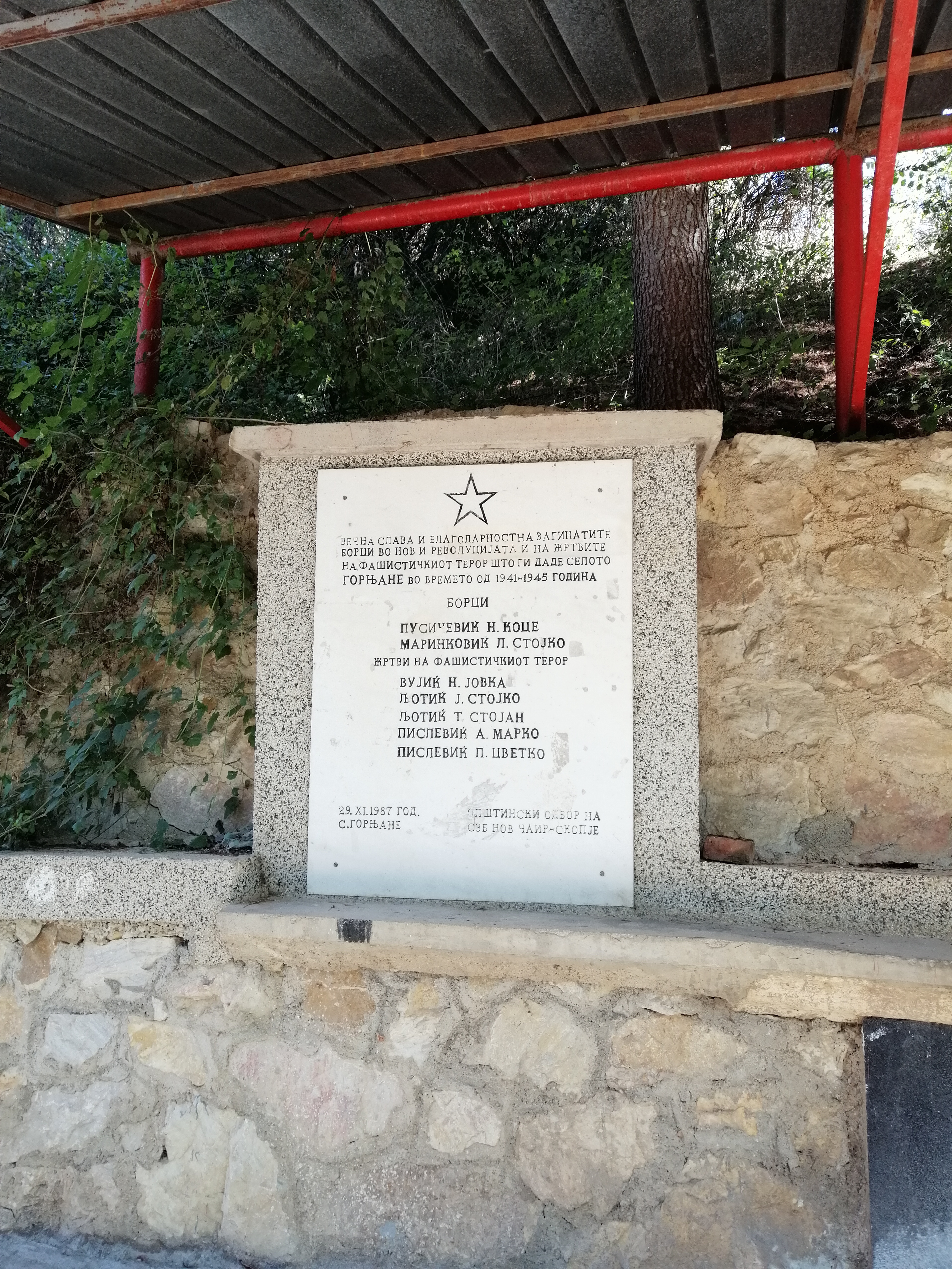 Memorial plaque in the village Gornjani